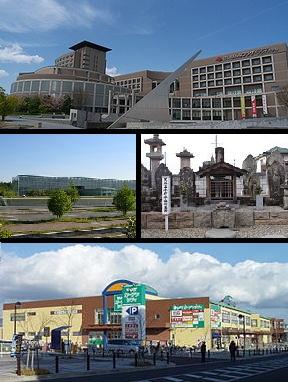 Seika montage